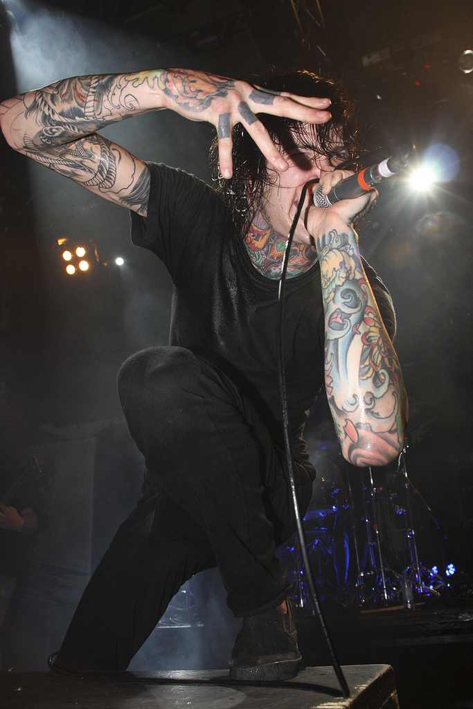 Mitch Lucker Of Suicide Silence - Summer Slaugter 2008 Live In London @ Islington Academy